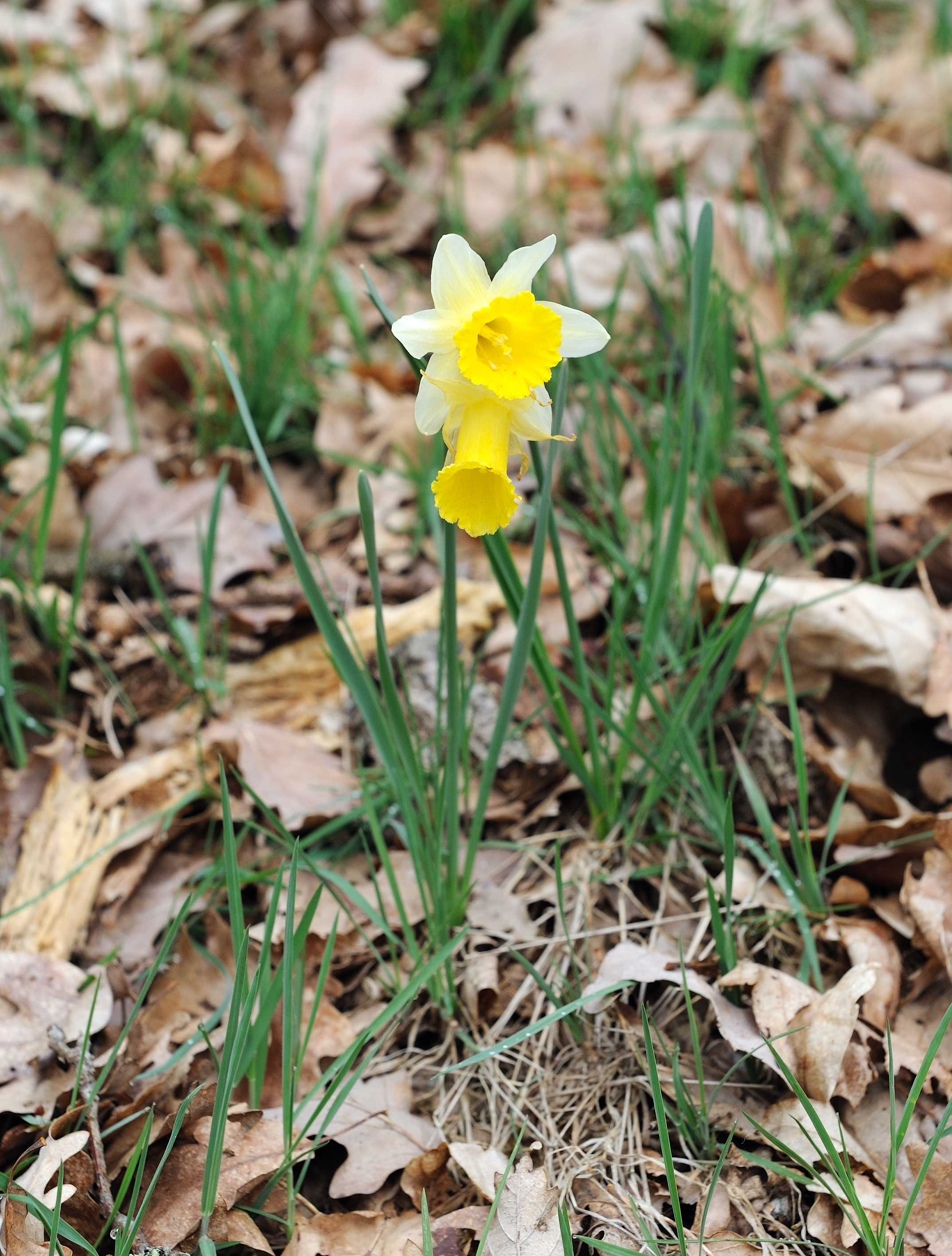 Luxembourg, Lellingen: Wild daffodil (Narcissus pseudonarcissus).